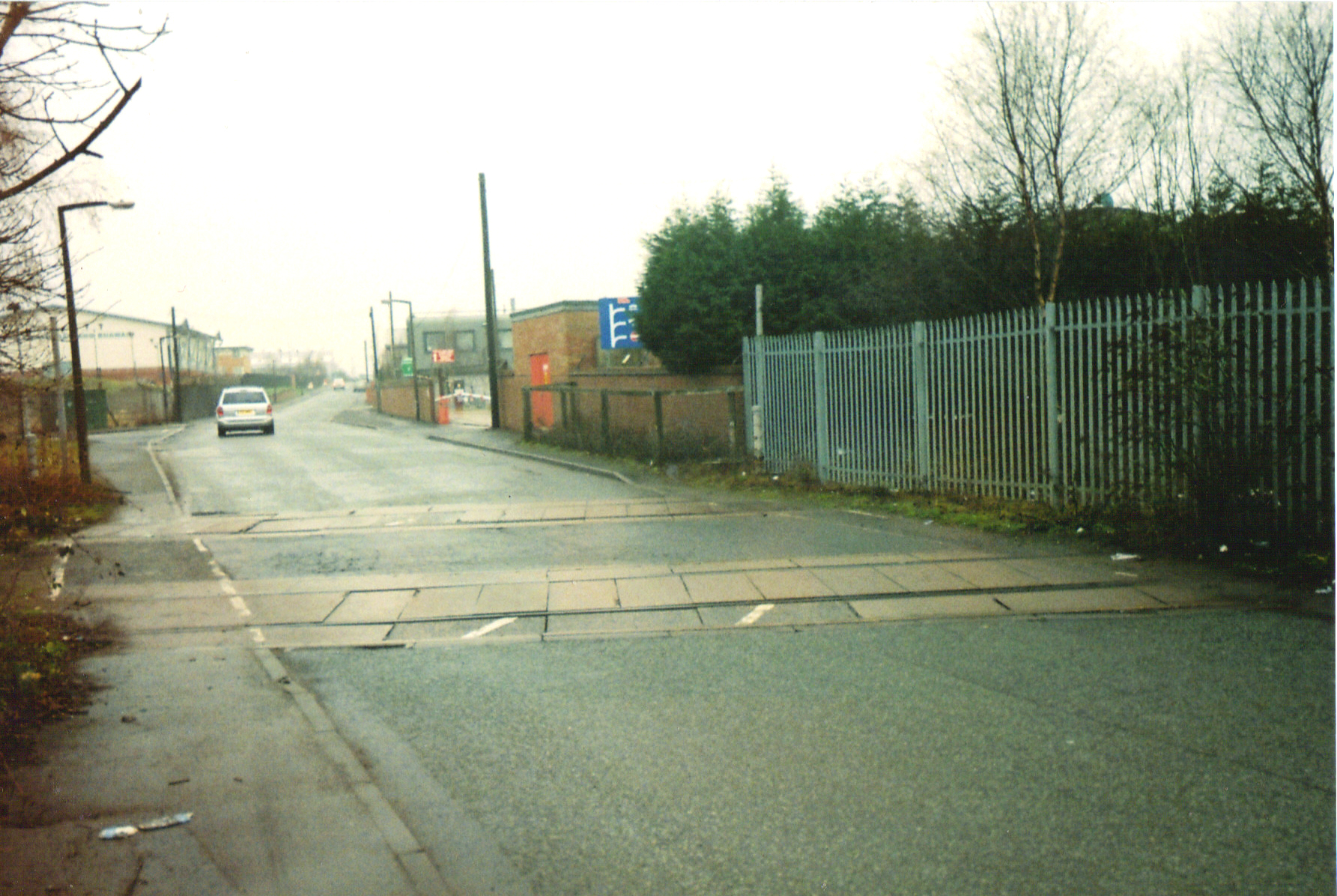 The rail crossing outside closed Wednsbury Town station in 2011.